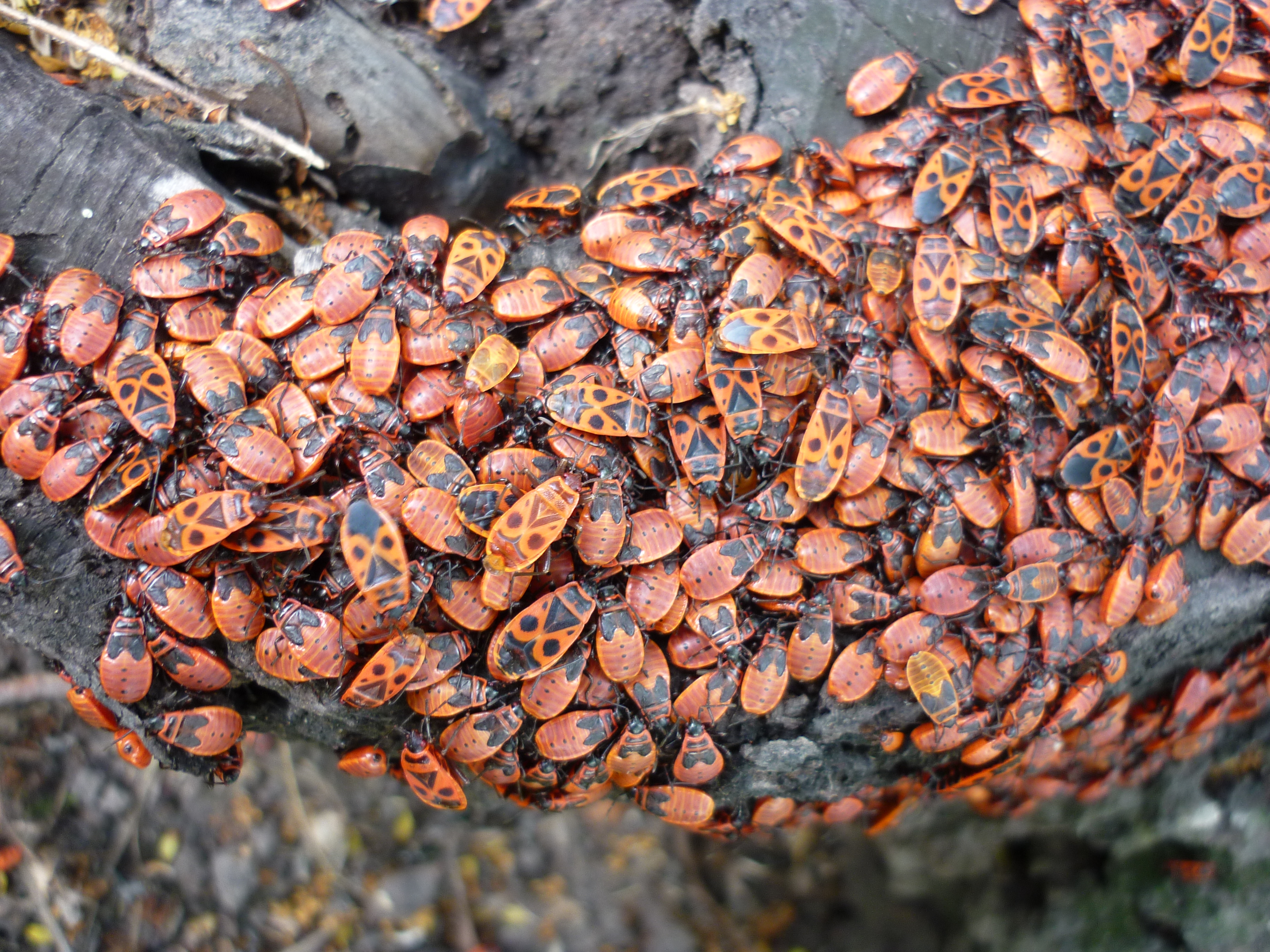 A colony of firebugs (Pyrrhocoris apterus) on a tree stump.